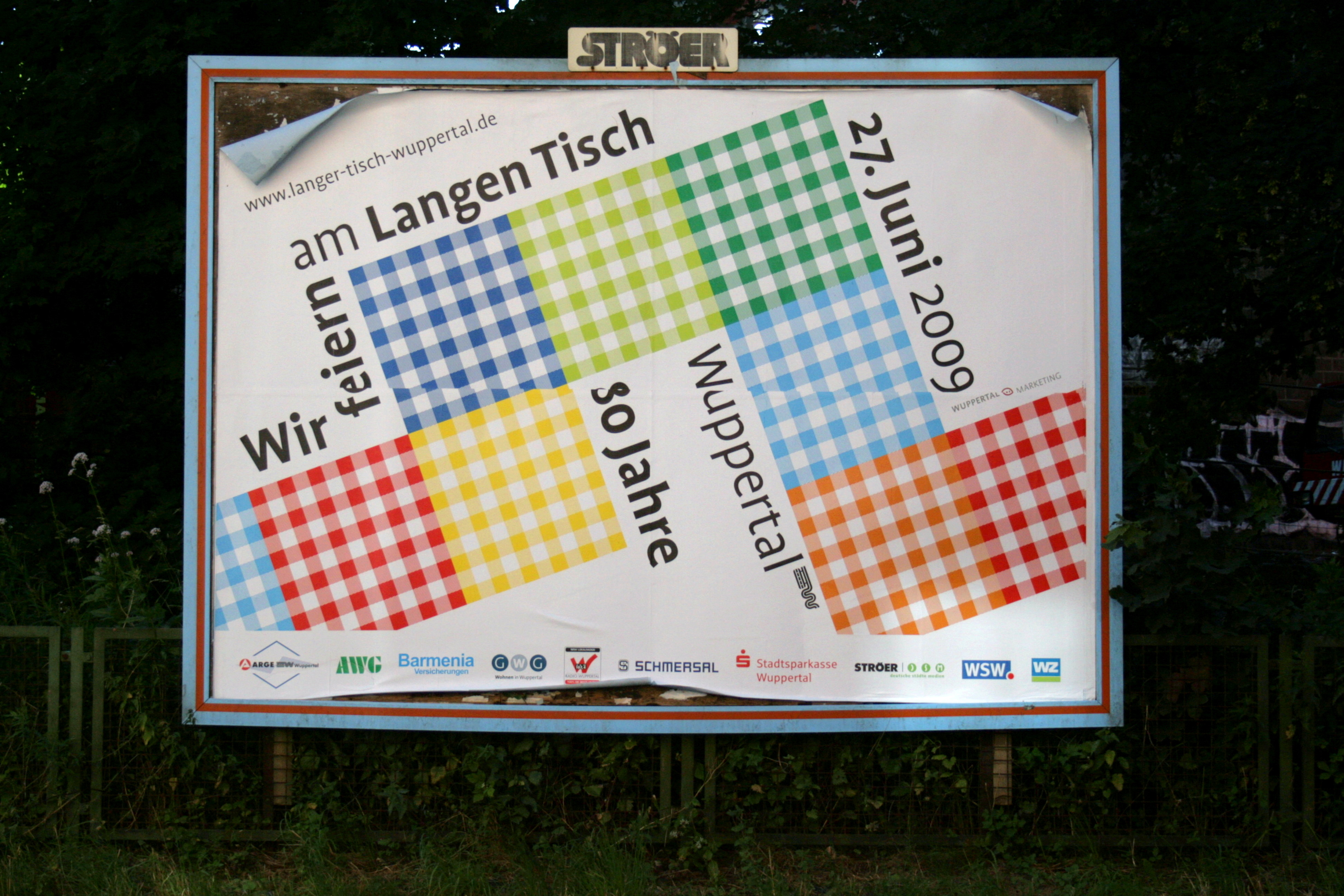 Langer Tisch (en: long table), a 14 km long street fair in Wuppertal celebrating Wuppertal's 80th “birthday” in 2009